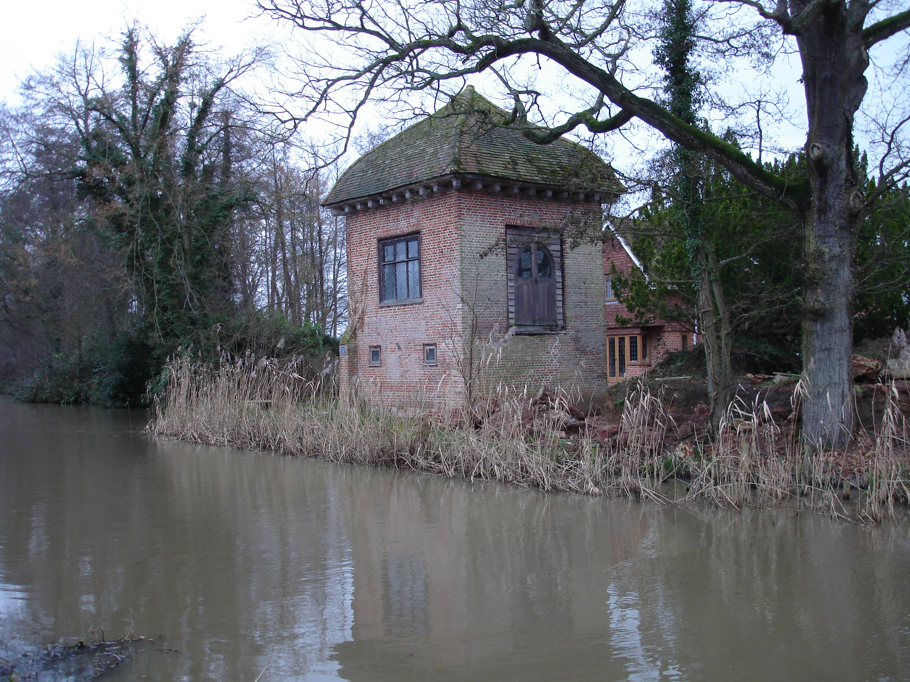 Suzanne Knights, my photo, Jan 2007